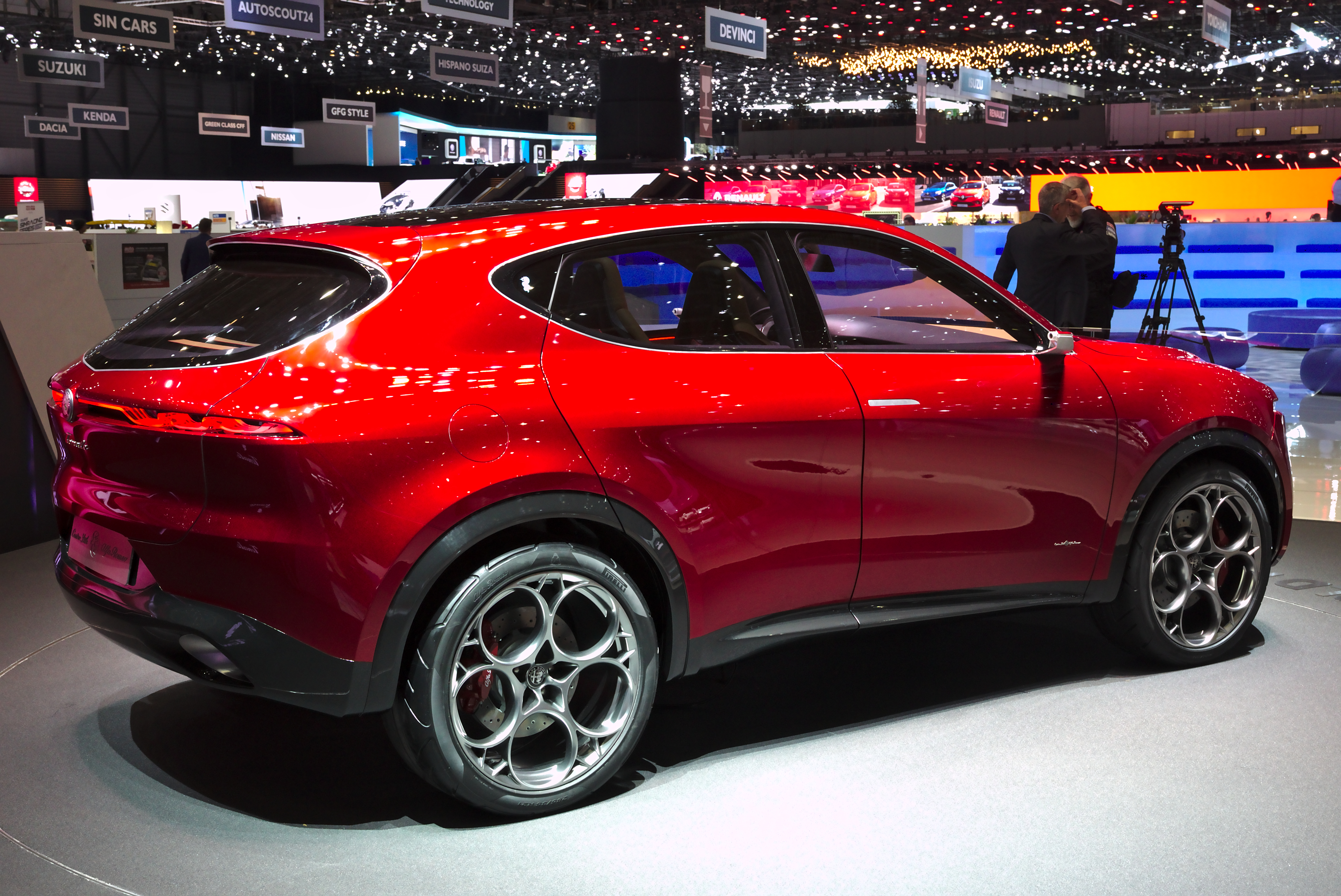 Alfa Romeo Tonale Concept at Geneva Motor Show 2019